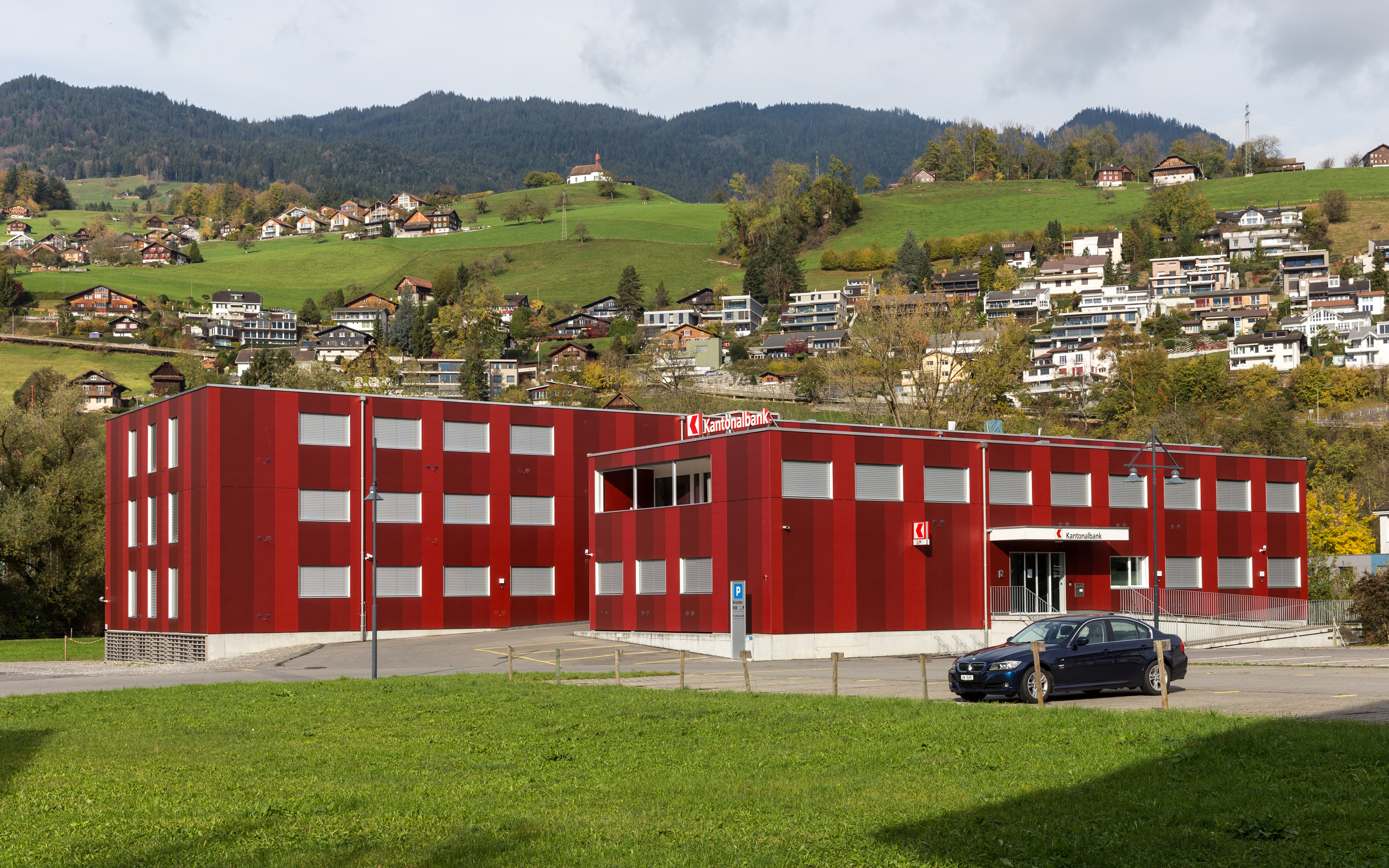 Provisional Head quarters of Obwaldner Kantonalbank, Sarnen, Switzerland